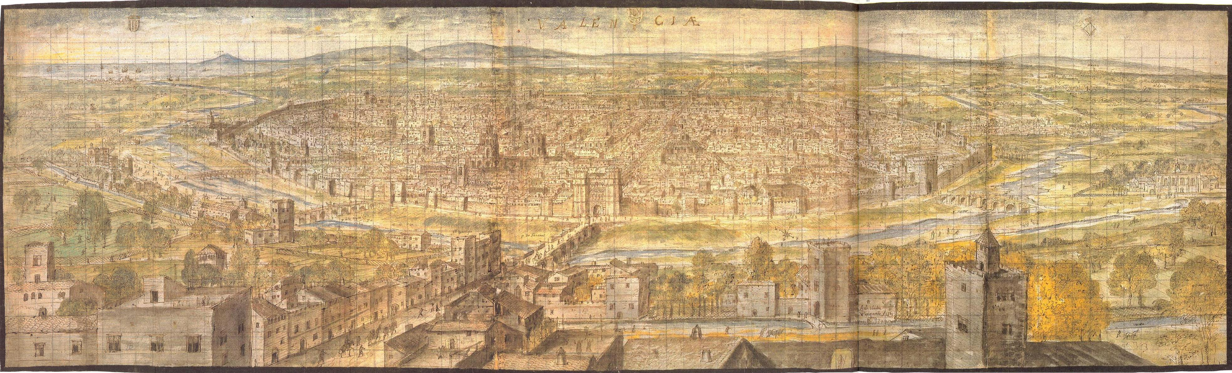 View of Valéncia in 1563, made by Anton van der Wyngaerde. Accepted name by KEW: Vista de Valéncia des del nord l'any 1563, obra del flamenc Anton van der Wyngaerde.